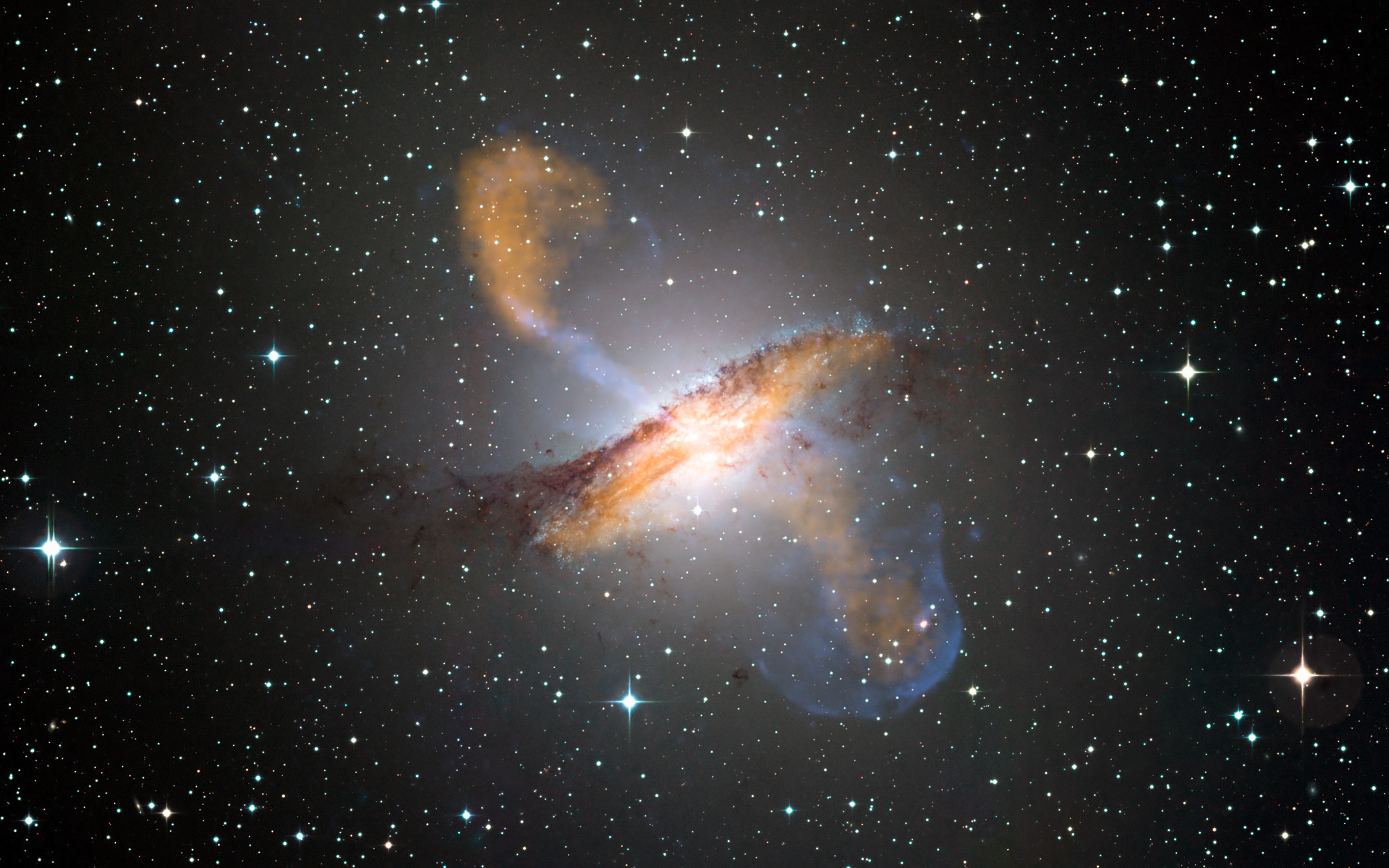 Colour composite image of Centaurus A, revealing the lobes and jets emanating from the active galaxy’s central black hole. This is a composite of images obtained with three instruments, operating at very different wavelengths. The 870-micron submillimetre data, from LABOCA on APEX, are shown in orange. X-ray data from the Chandra X-ray Observatory are shown in blue. Visible light data from the Wide Field Imager (WFI) on the MPG/ESO 2.2 m telescope located at La Silla, Chile, show the stars and the galaxy’s characteristic dust lane in close to "true colour".